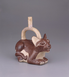 Moche Puma. Larco Museum Collection.